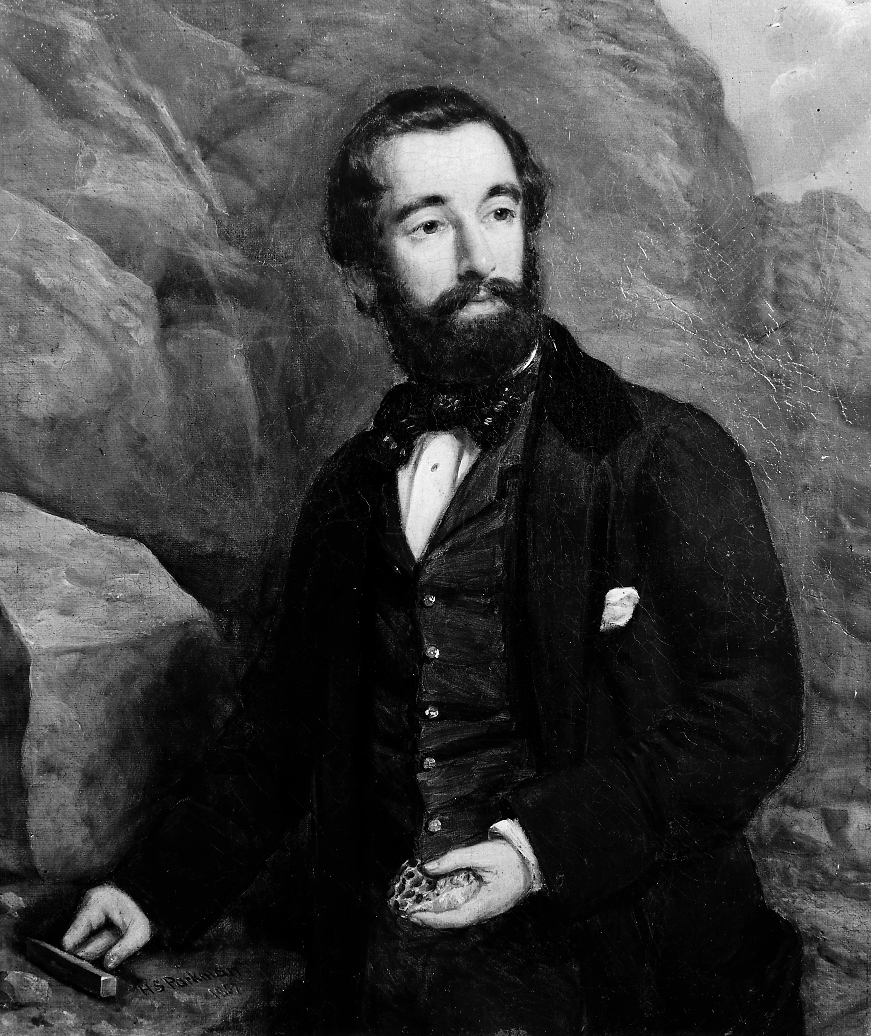 Portrait of William Hellier Bailey, 3/4 length standing, in his left hand he is holding a rock specimen, and in his right hand he his holding a hammer Iconographic Collections Keywords: William Hellier Bailey